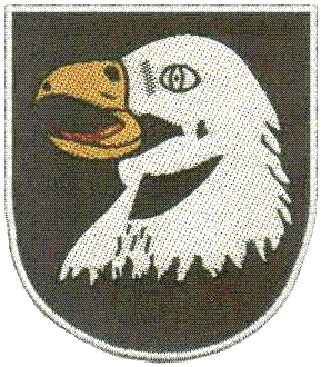 Badge of Riot Control Company of Military Police of Parana State - Brazil.